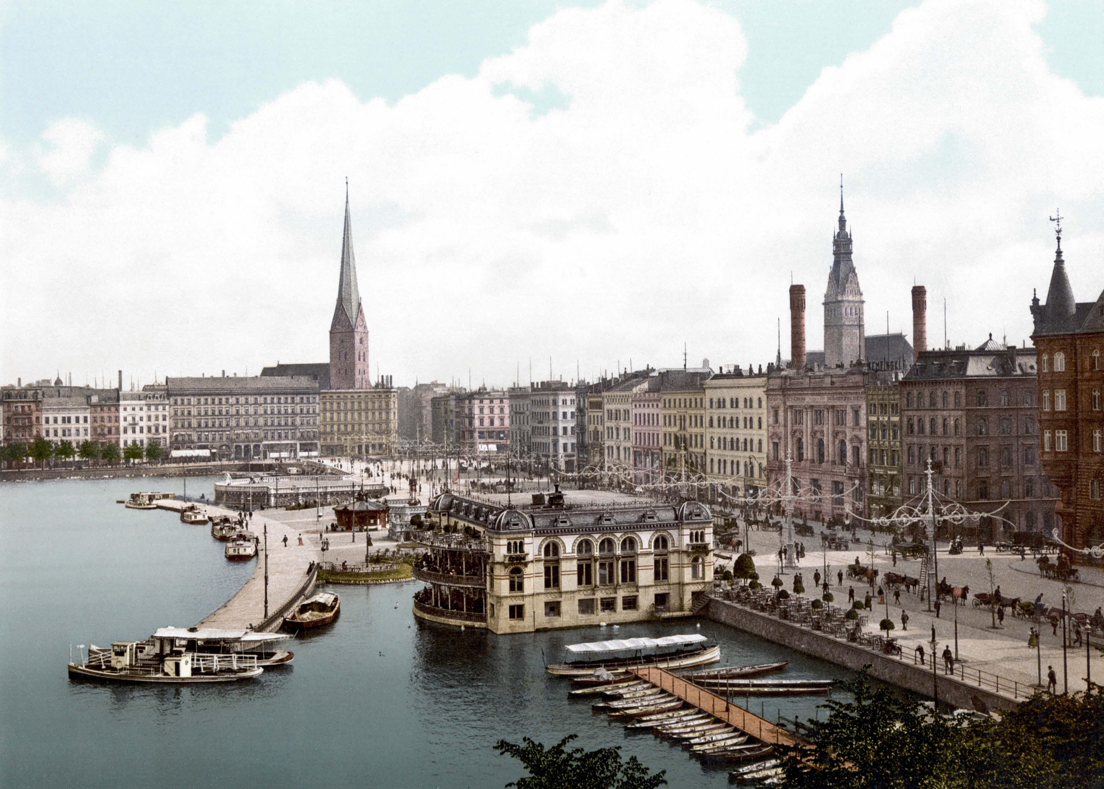 Old view of Hamburg, between 1900 and 1914. Beginning in the lower right, Hamburg's broadway Jungfernstieg leads directly to one of Hamburg's main churches, St. Petri, on the left. The right tower the one of the city hall, even though the clocks are missing. In the bottom left edge of the image you can see the Binnenalster, the smaller one of the two lakes formed by the river Alster in the heart of Hamburg. In the center the famous Alster Pavillon, a café established in 1799 and still open. This is the fourth building, which existed between 1900 and 1914. The view along the streets and the skyline hasn't changed much since this picture has been printed, even though quite some of the buildings have been replaced in the first half of the 20th century. The Alster Pavillon is still at the same place, but in a new building of 1954, after the fifth building was destroyed during World War 2. The promenade has been reconstructed in 2004/2005.